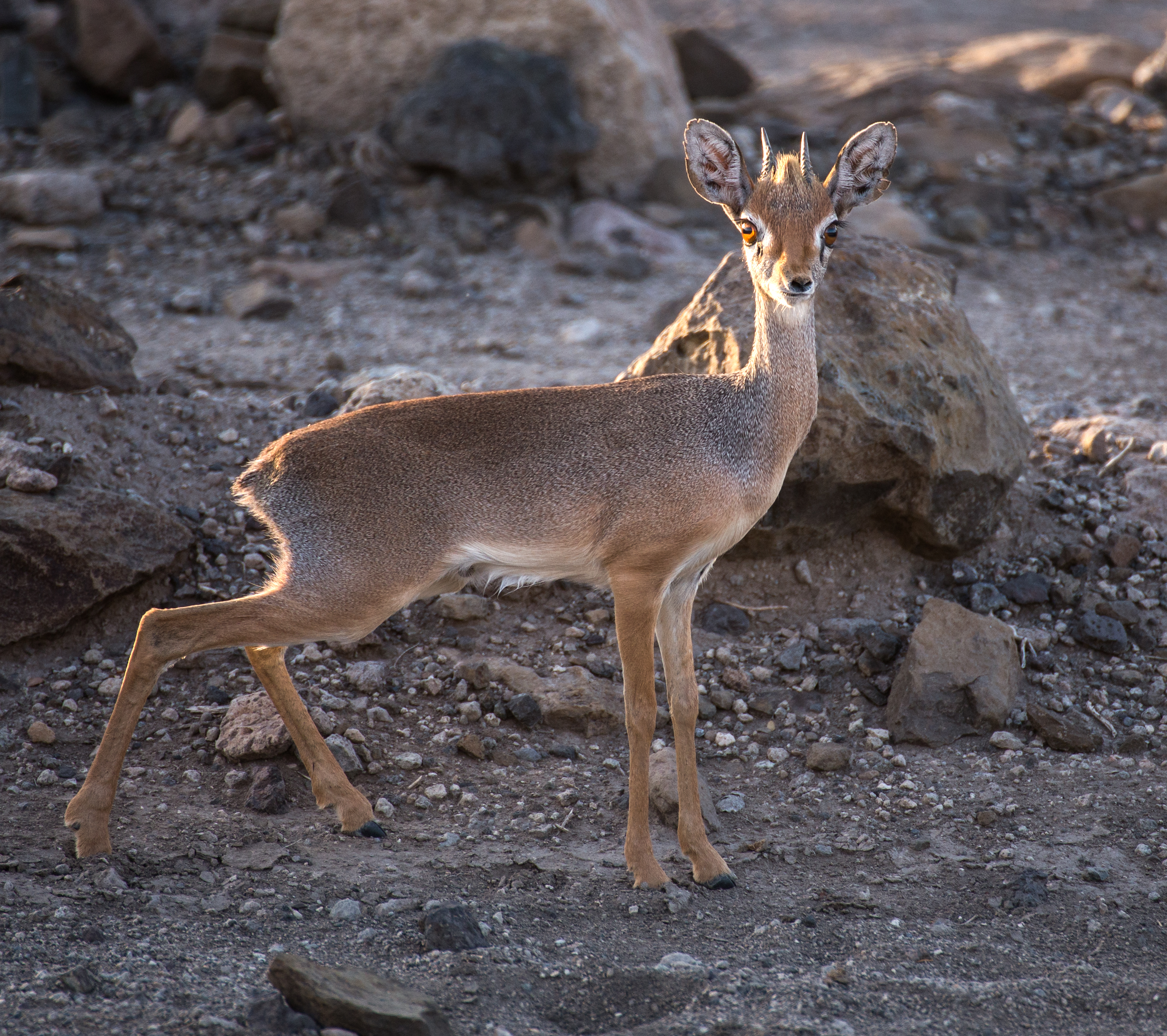 Salt's dik-dik